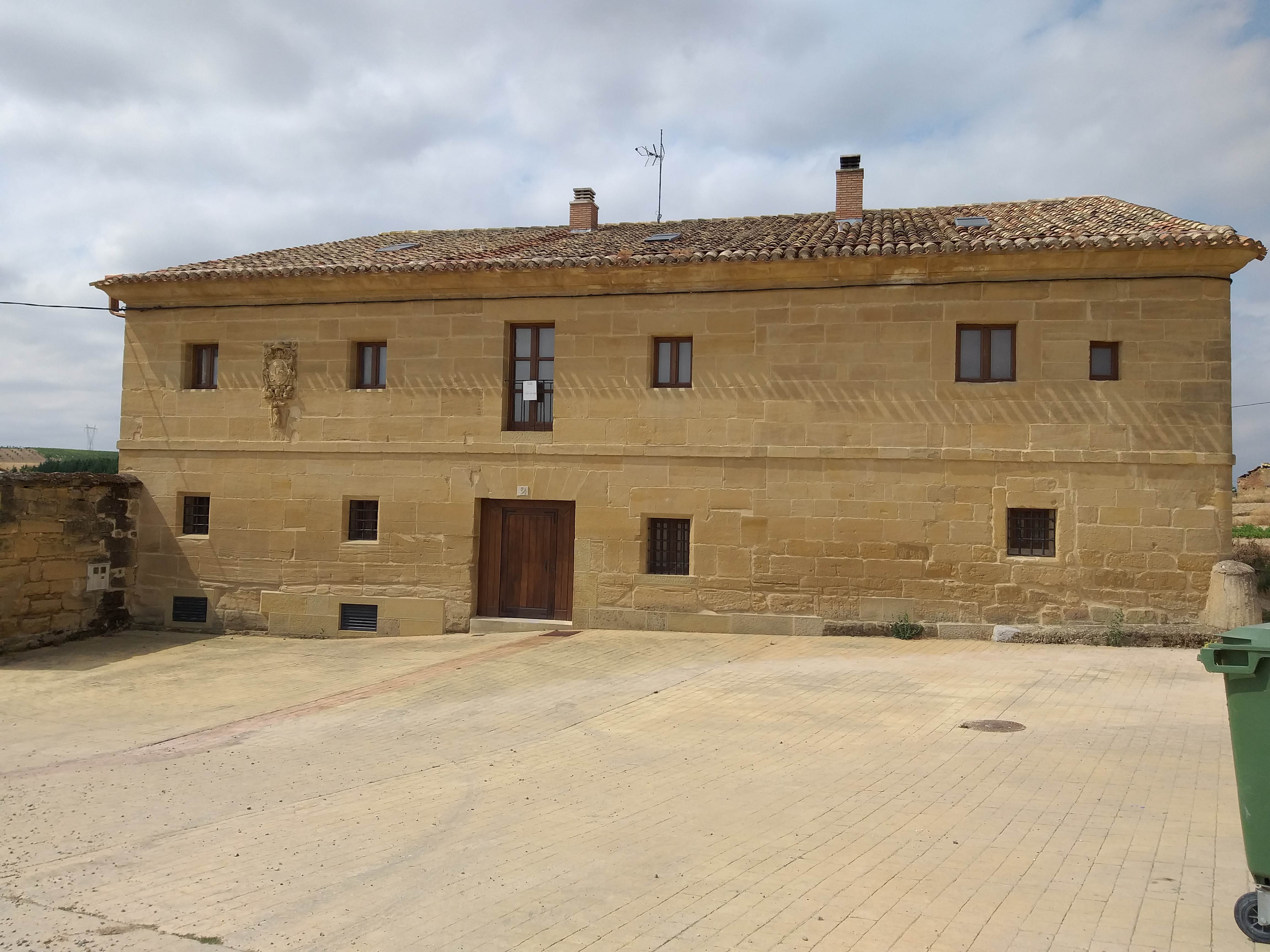 Monastery of Santa María de Rodezno, in Cuzcurritilla, Rodezno